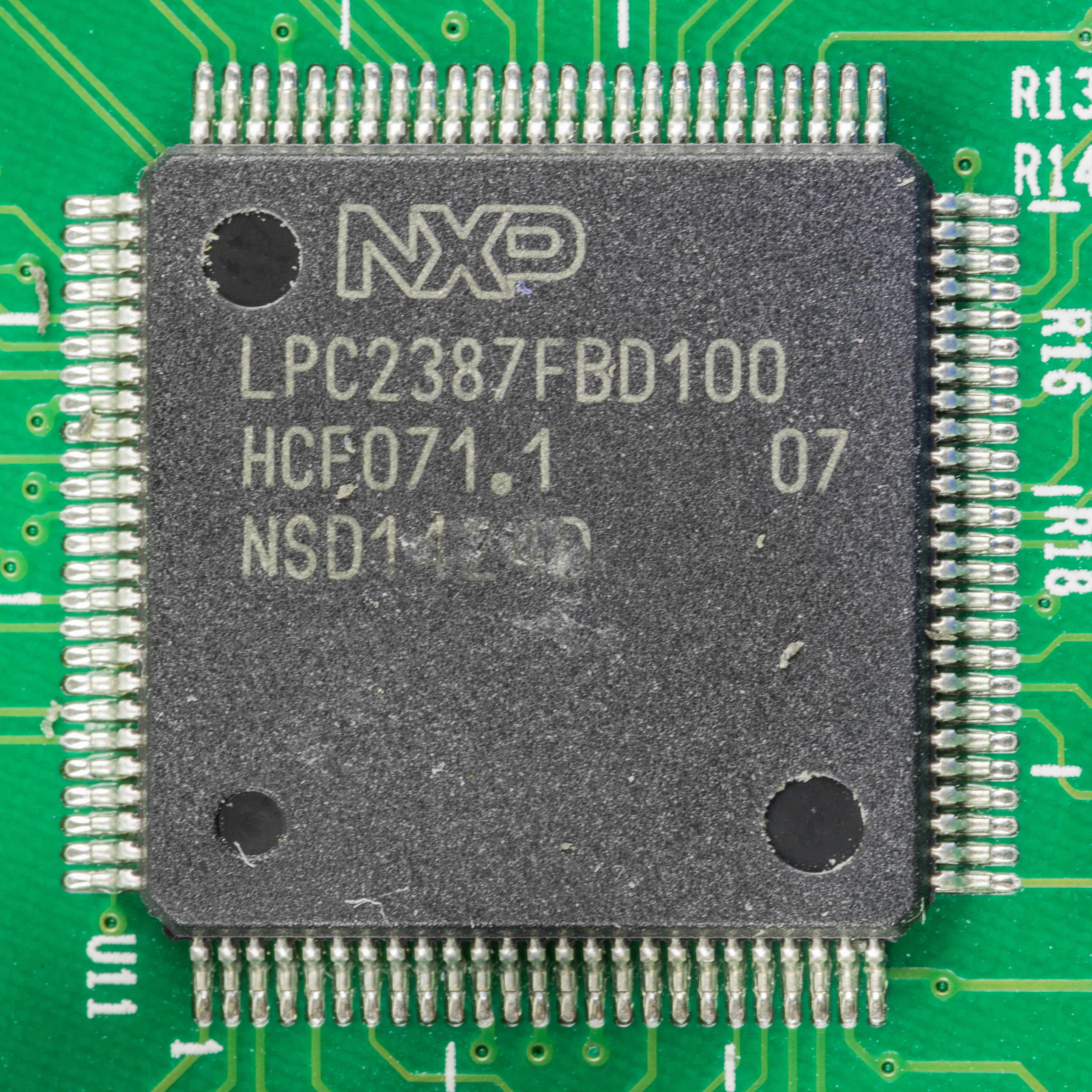 Kramer Electronics SID-X1N - board - NXP LPC2387FBD100 - Single-chip microcontroller 16-bit/32-bit MCU; 512 kB flash with ISP/IAP, Ethernet, USB 2.0 device/host/OTG, CAN, and 10-bit ADC/DAC. Package: LQFP100, body 14  14  1.4 mm